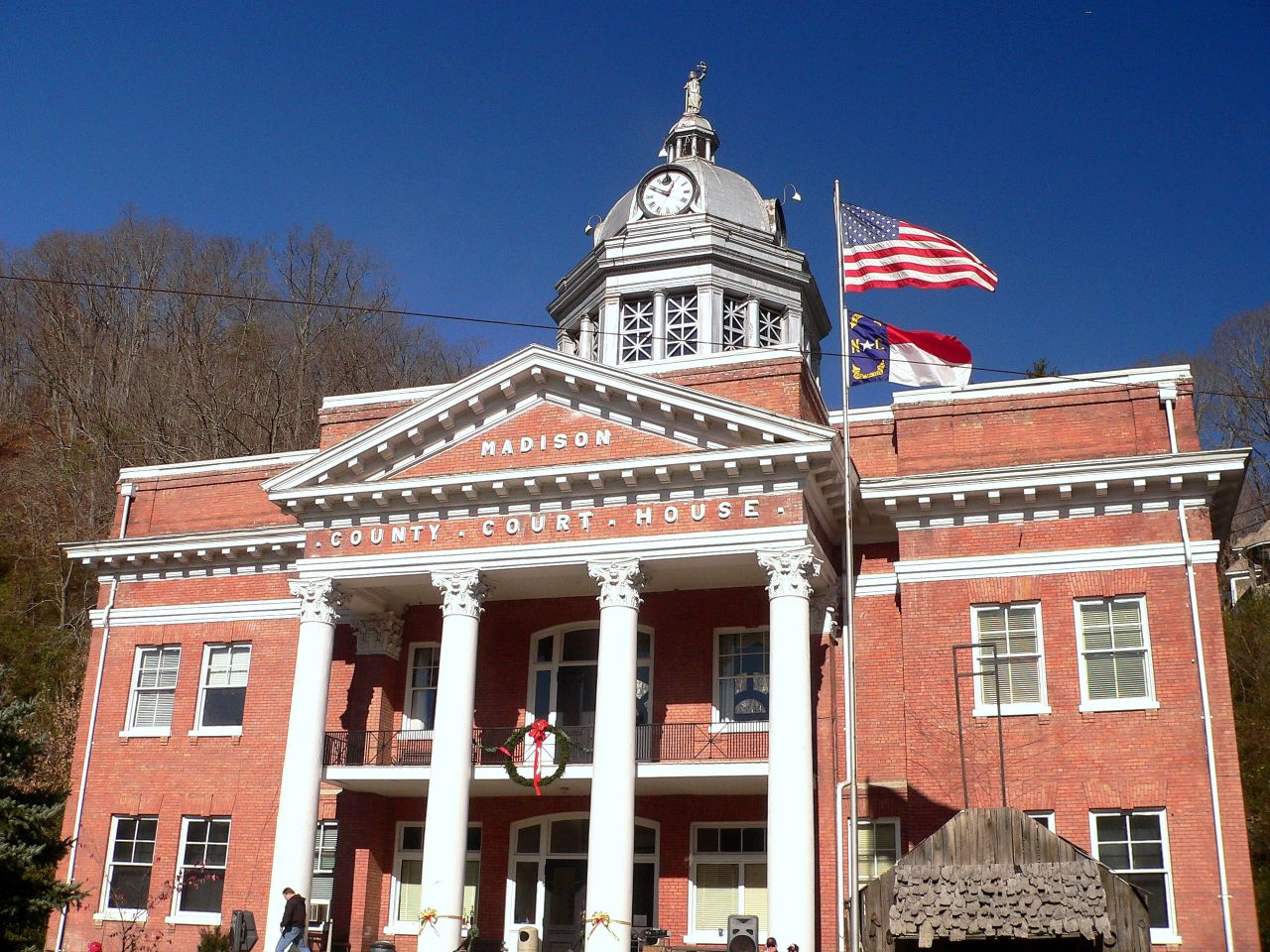 The Madison County courthouse in North Carolina, USA. I photographed this image and I release it for use on Wikipedia.